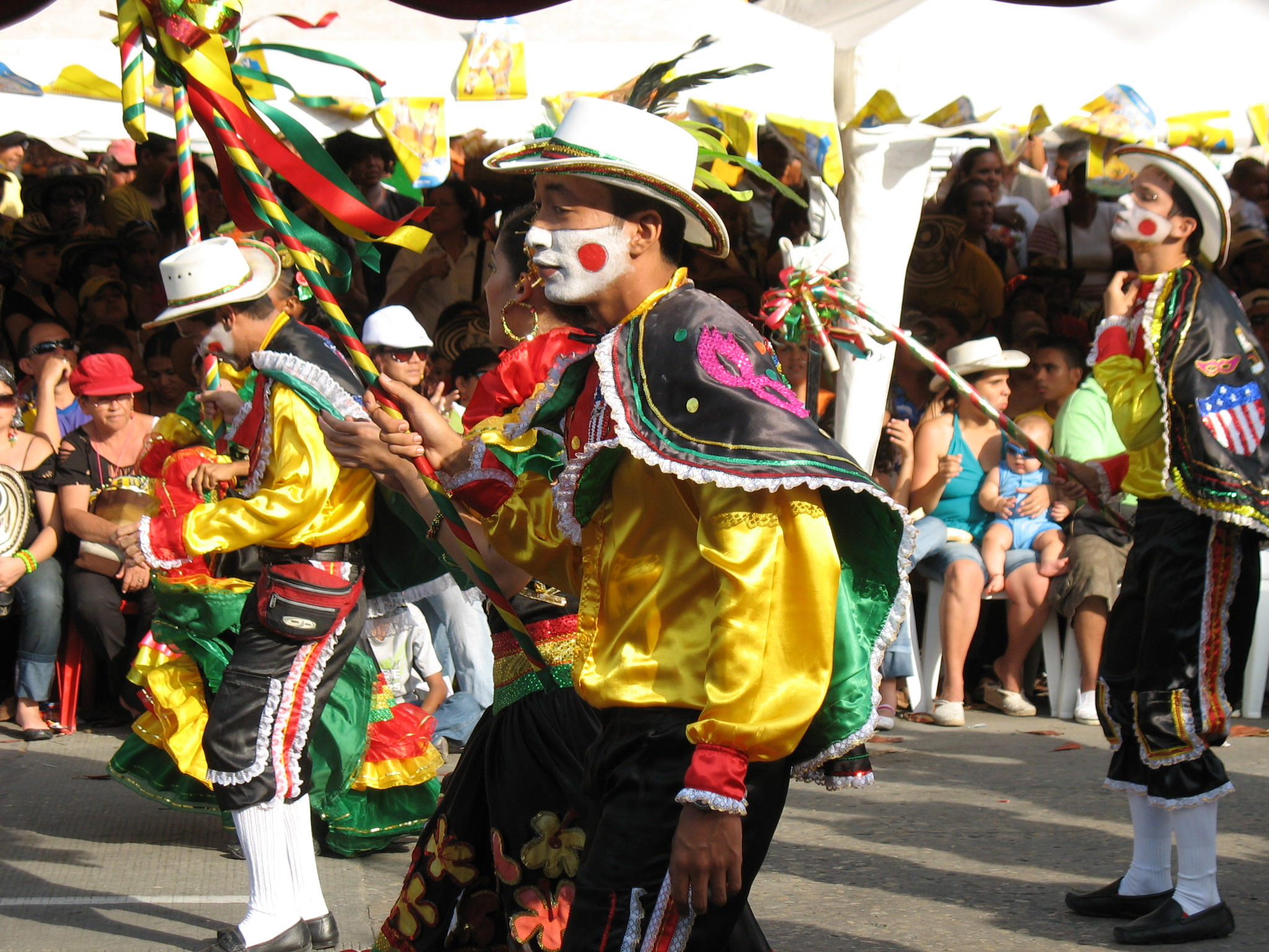 Garabato Carnaval de Barranquilla